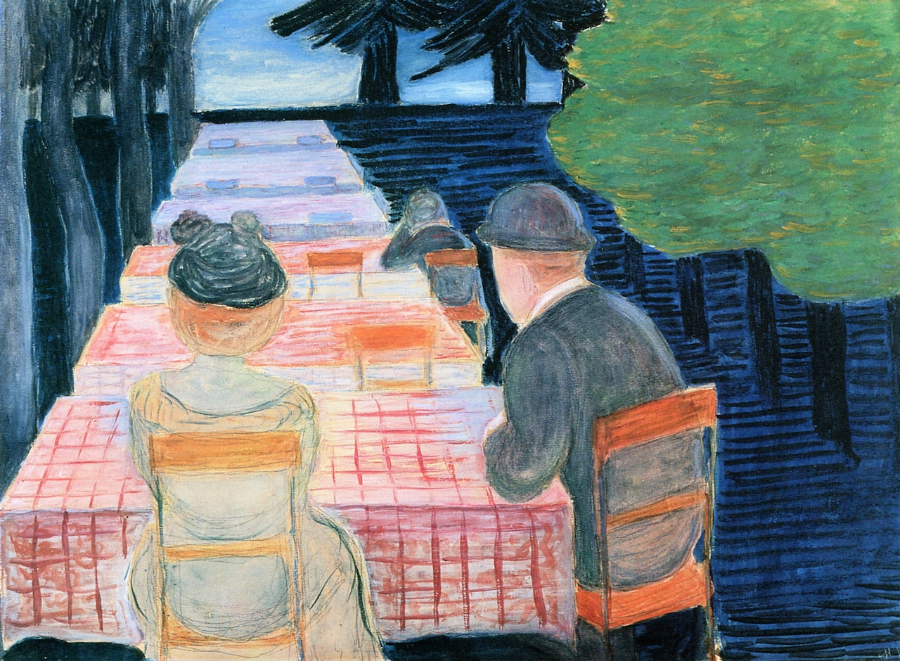 painting by Marianne von Werefkin